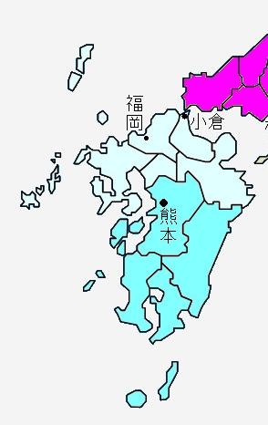 Sixth Army Region is composed of two divisional regions. The southern half of Kyushu island is 11th Divisional Region. The northern half is the 12th Divisional region. This file is derived to File:Gokishichido.svg.